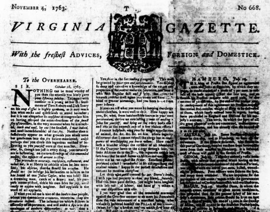 newspaper; Virginia Gazette 11 04 1763